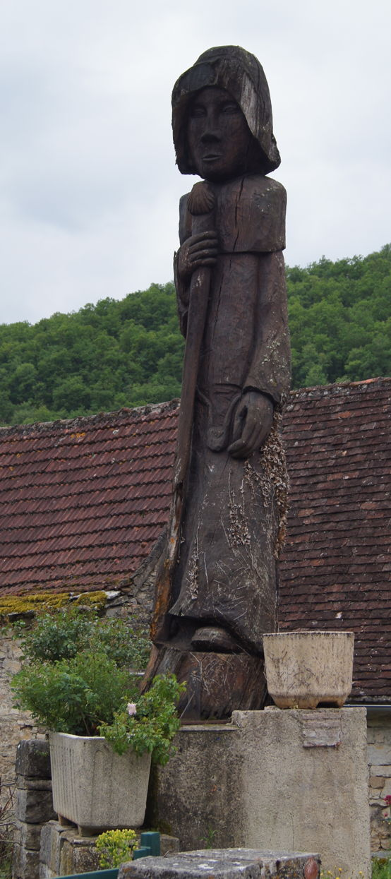 Picture of a big wooden statue showing a pilgrim in Espagnac-Sainte-Eulalie, Lot department, France.